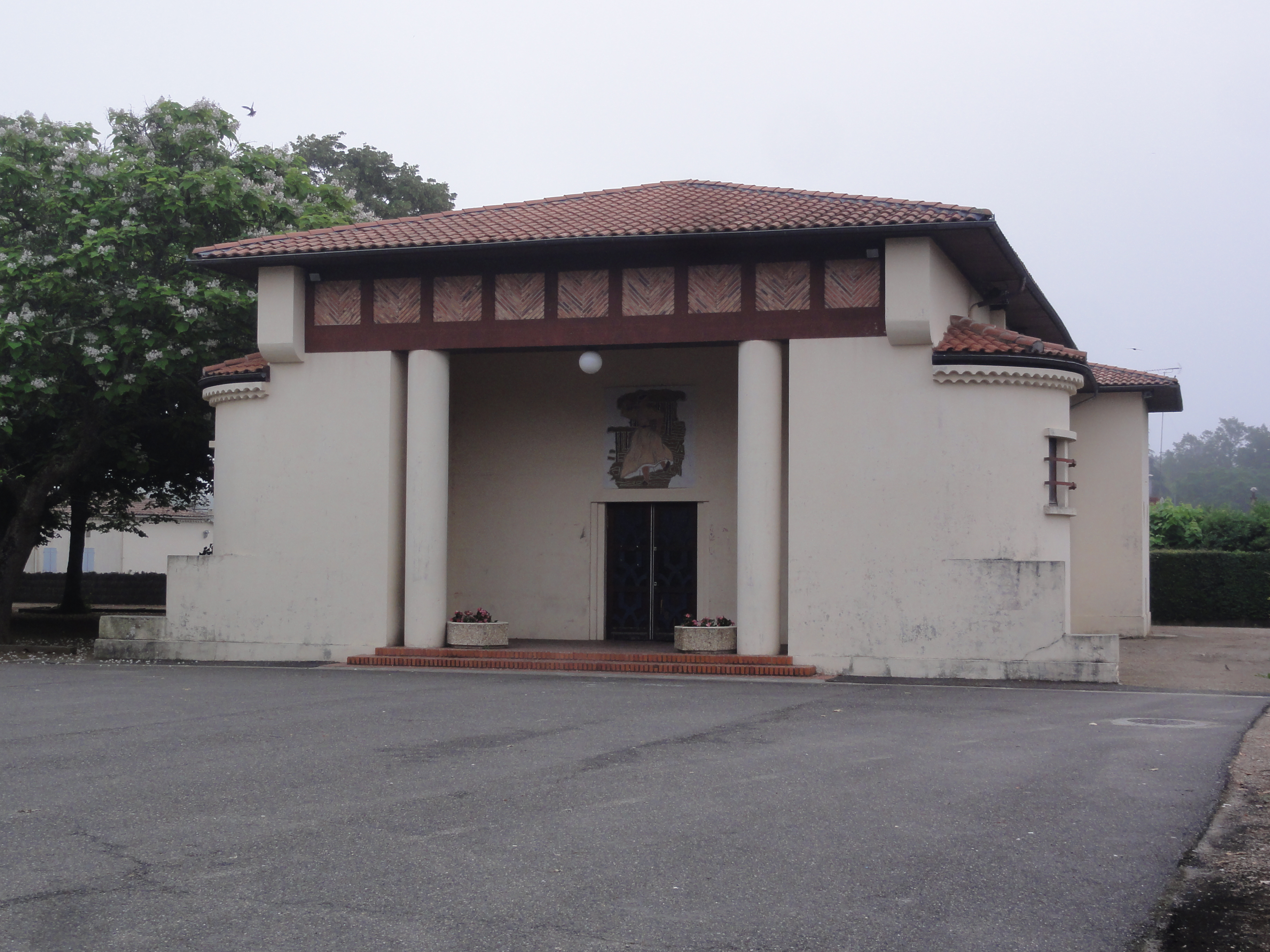 Moustey (Landes) salle des fêtes